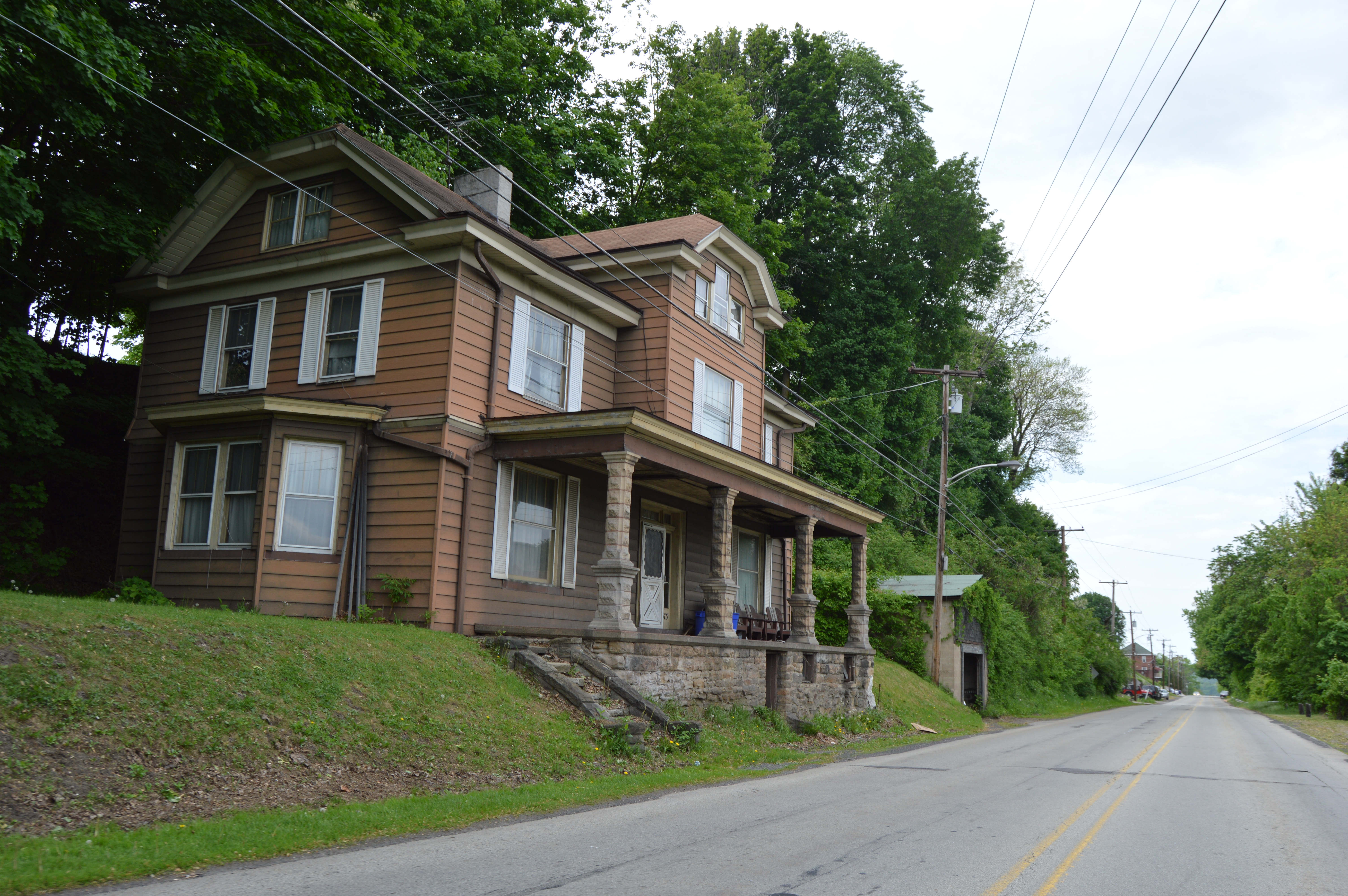 Houses on the southwestern side of National Pike, the former U.S. Route 40 and previous route of the National Road, in Brownsville Township, Fayette County, Pennsylvania, United States.